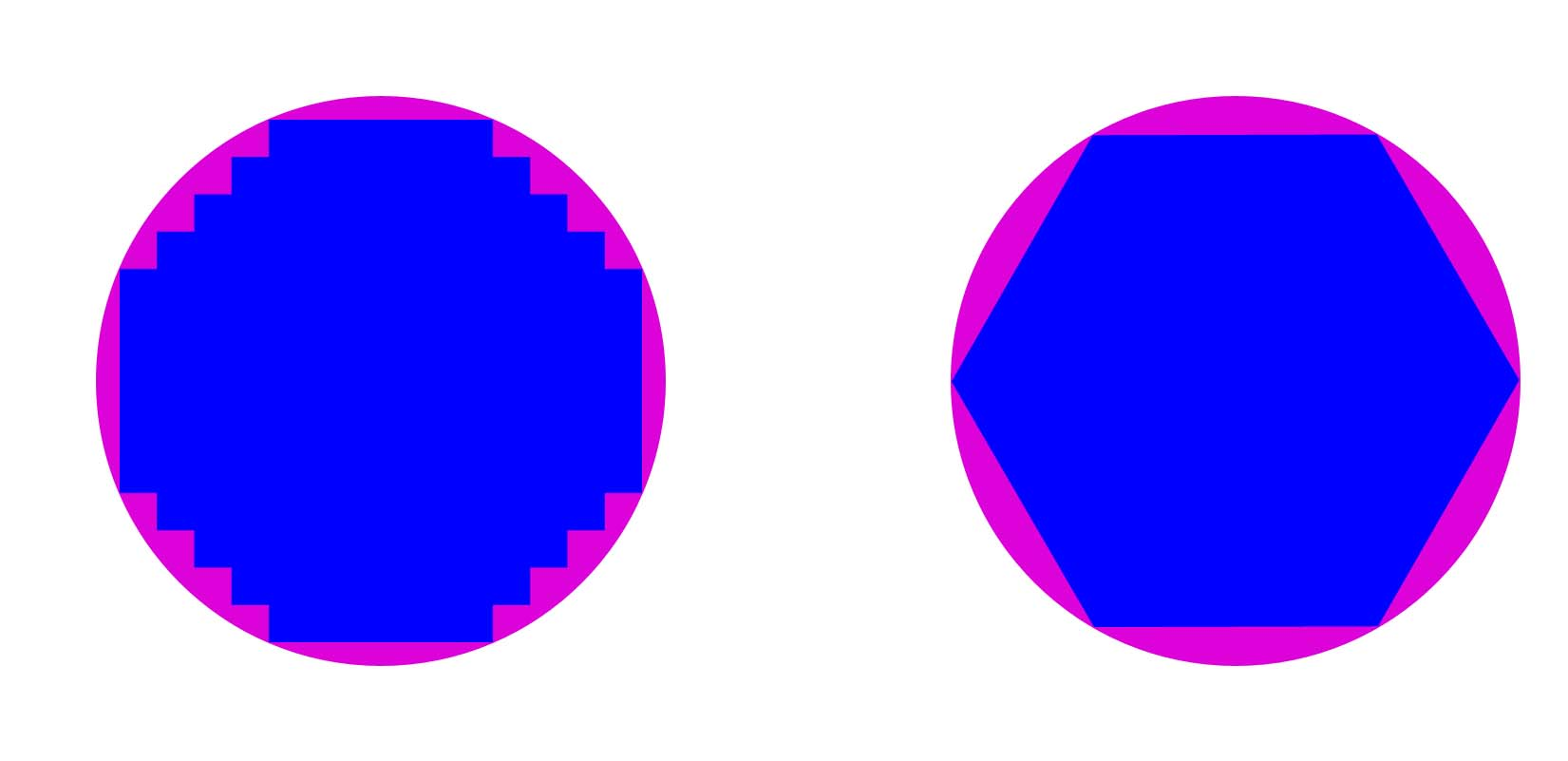 Density and Hausdorff distance